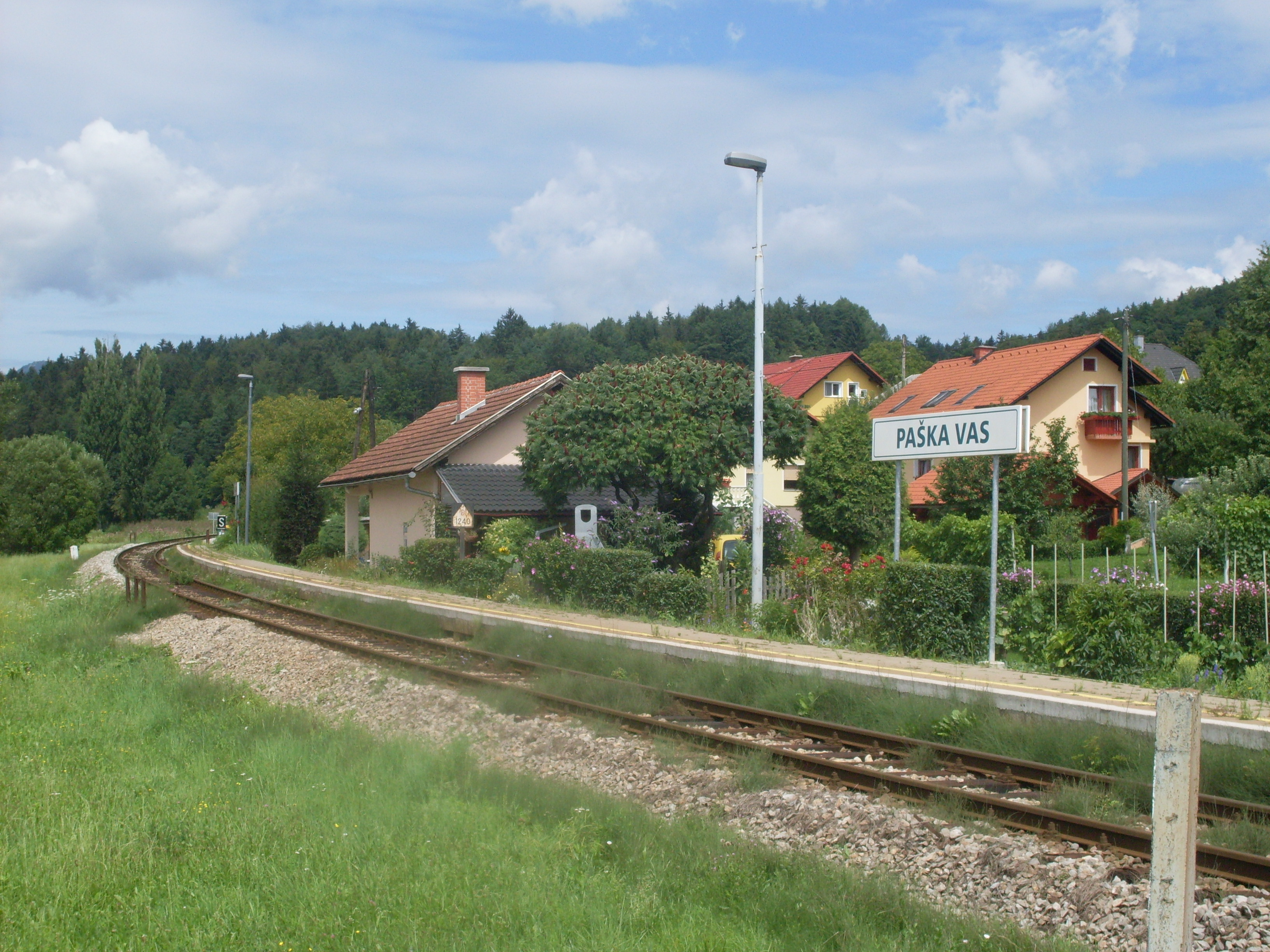 Railway halt Paška vas, actually located in nearby GavceSlovenščina: Železniško postajališče Paška vas, ki se pravzaprav nahaja v bližnjih Gavcah